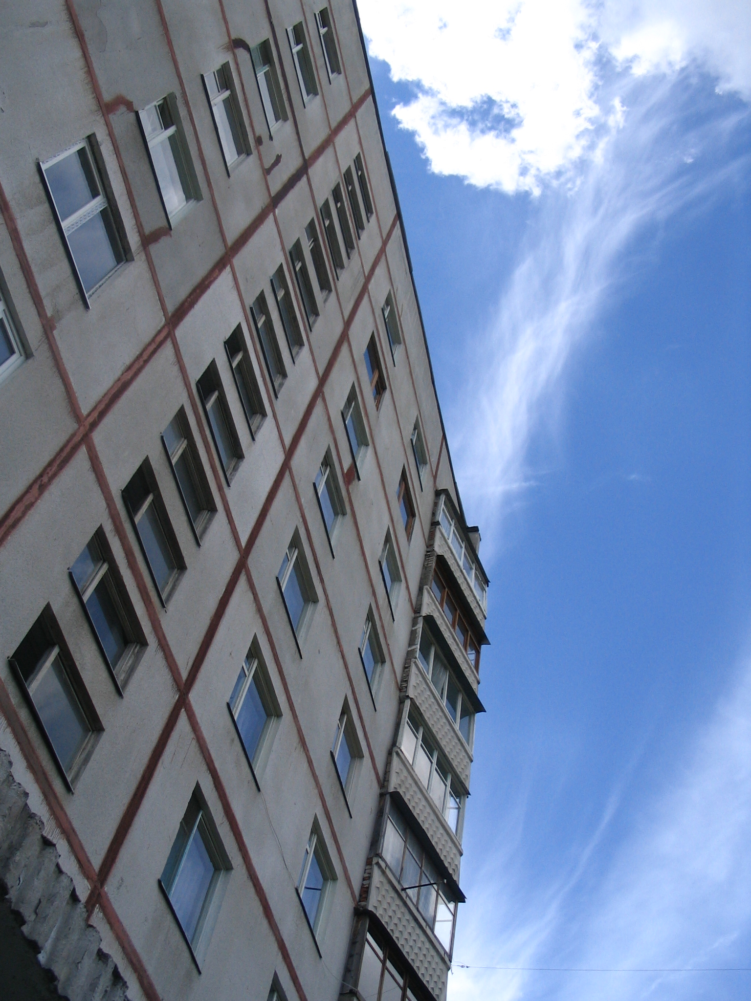 One of the 9-storeyed block of flats in Slin'ko street in Kharkiv, Ukraine